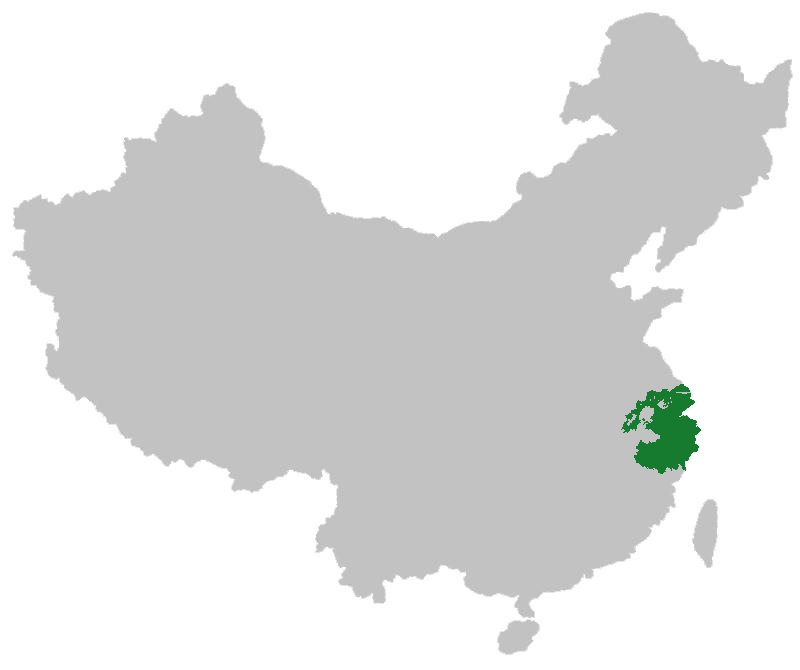 Linguistic maps of Wu in China/Taiwan/Hainan